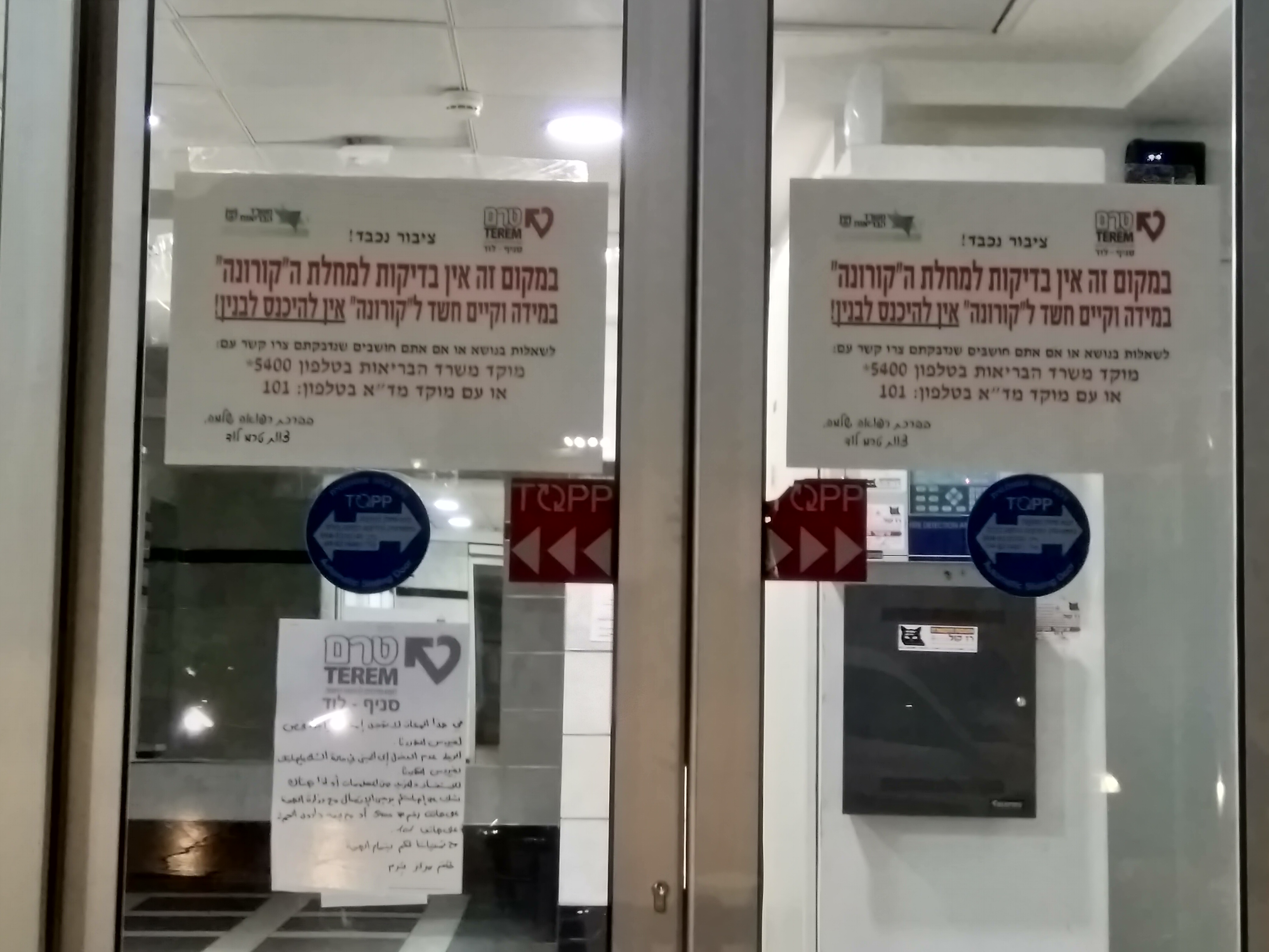 Corona virus warning signs in Hebrew and Arabic in entrance to Terem first aid clinic in Lod